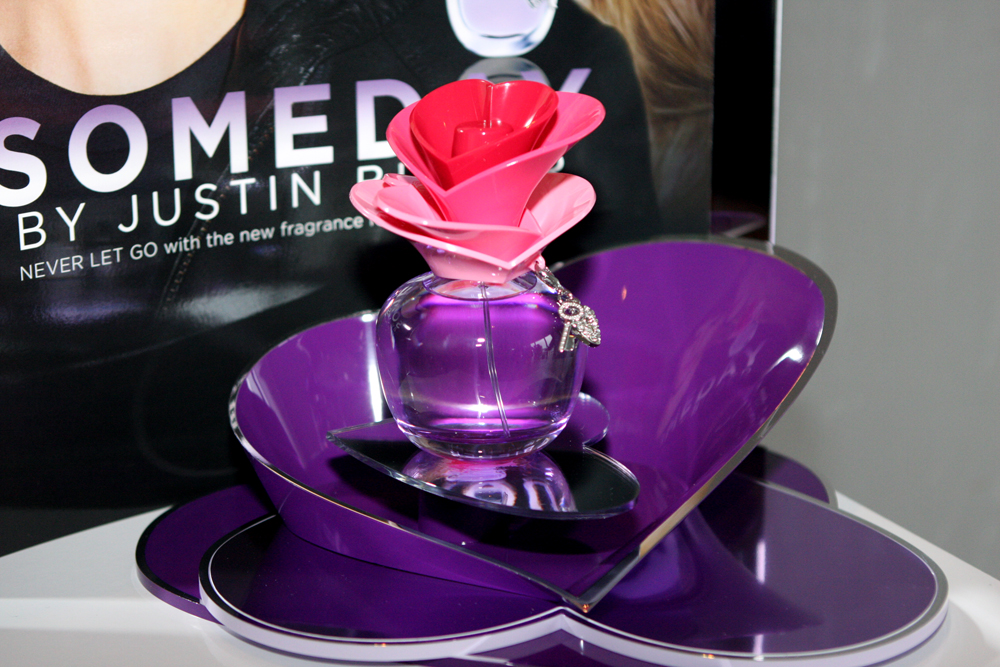 Worldwide phenomenon Justin Bieber has teamed up with Give Back Brands to create a fragrance with GBB's net profits going to charity. After record-breaking sales in the United States and the United Kingdom, SOMEDAY is launching in Australia exclusively through local distribution company, Escentials Brands, to be sold at Myer from Sunday 1 April 2012. In keeping with the philosophy of Justin Bieber and GBB, Escentials Brands will also be donating a further $2 every 100mL bottle sold between launch and 31 December 2012 to Make A Wish Australia. A donation of $50,000 will be made to Make A Wish Australia from Escentials Brands before a single bottle is sold. Websites